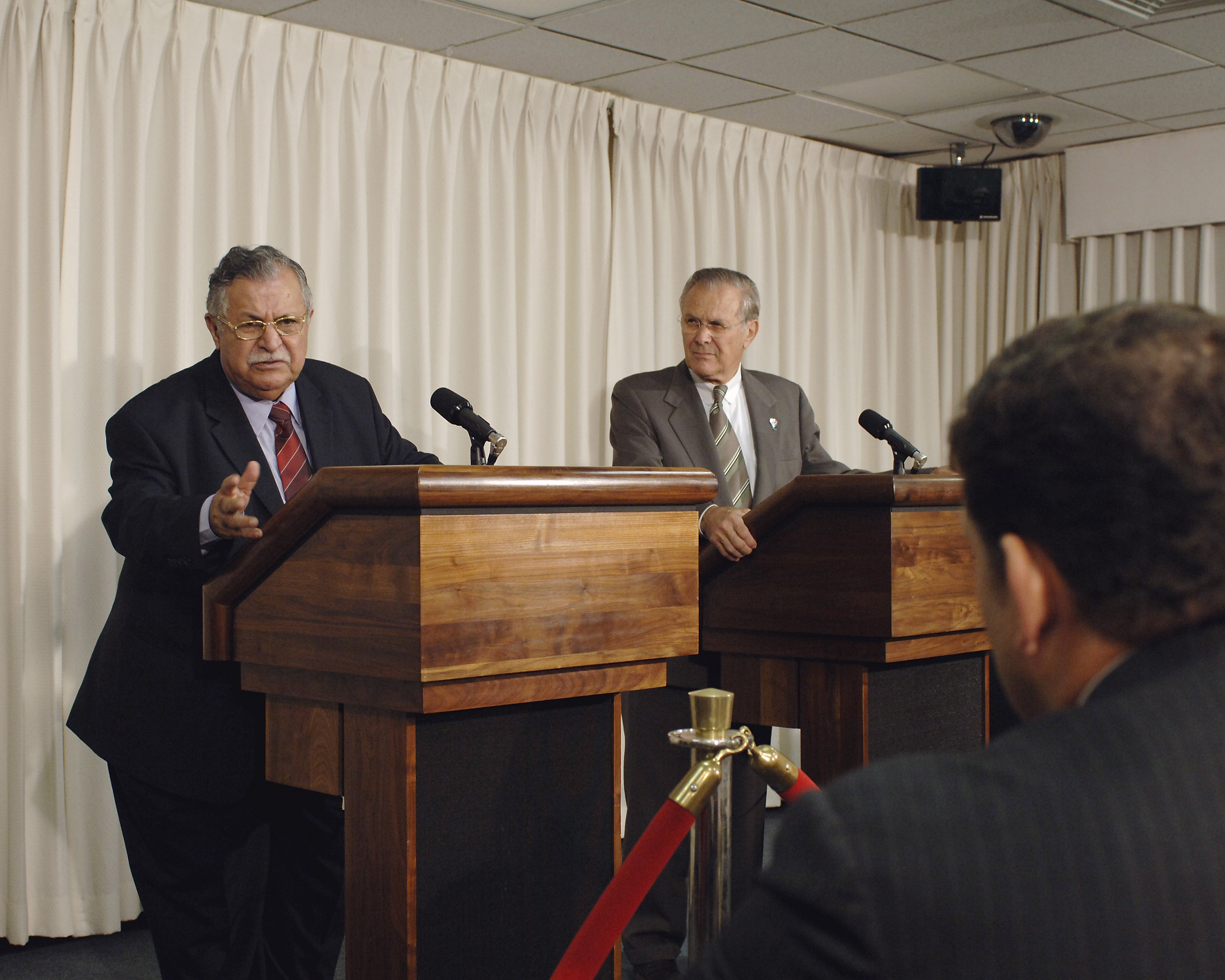 Iraqi President Jalal Talabani (left) responds to a reporter's question during a joint press conference with Secretary of Defense Donald H. Rumsfeld following their meeting in the Pentagon on Sept. 9, 2005.